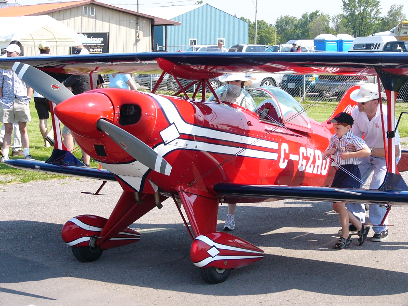 Pitts Special S-1T at Arnprior Airport